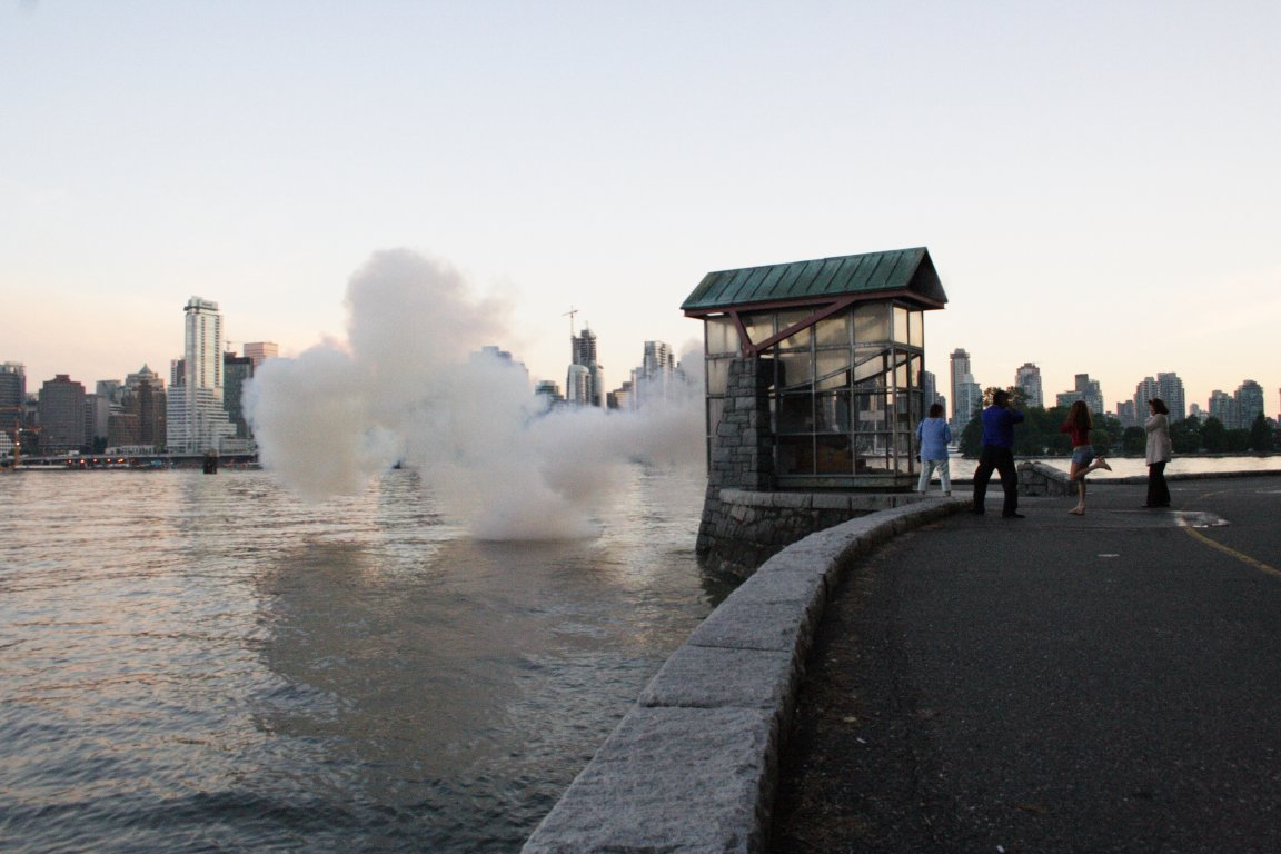 The 9 O'Clock gun at Stanley Park, Vancouver, firing in June, 2006 (by Aemil Folgizan)